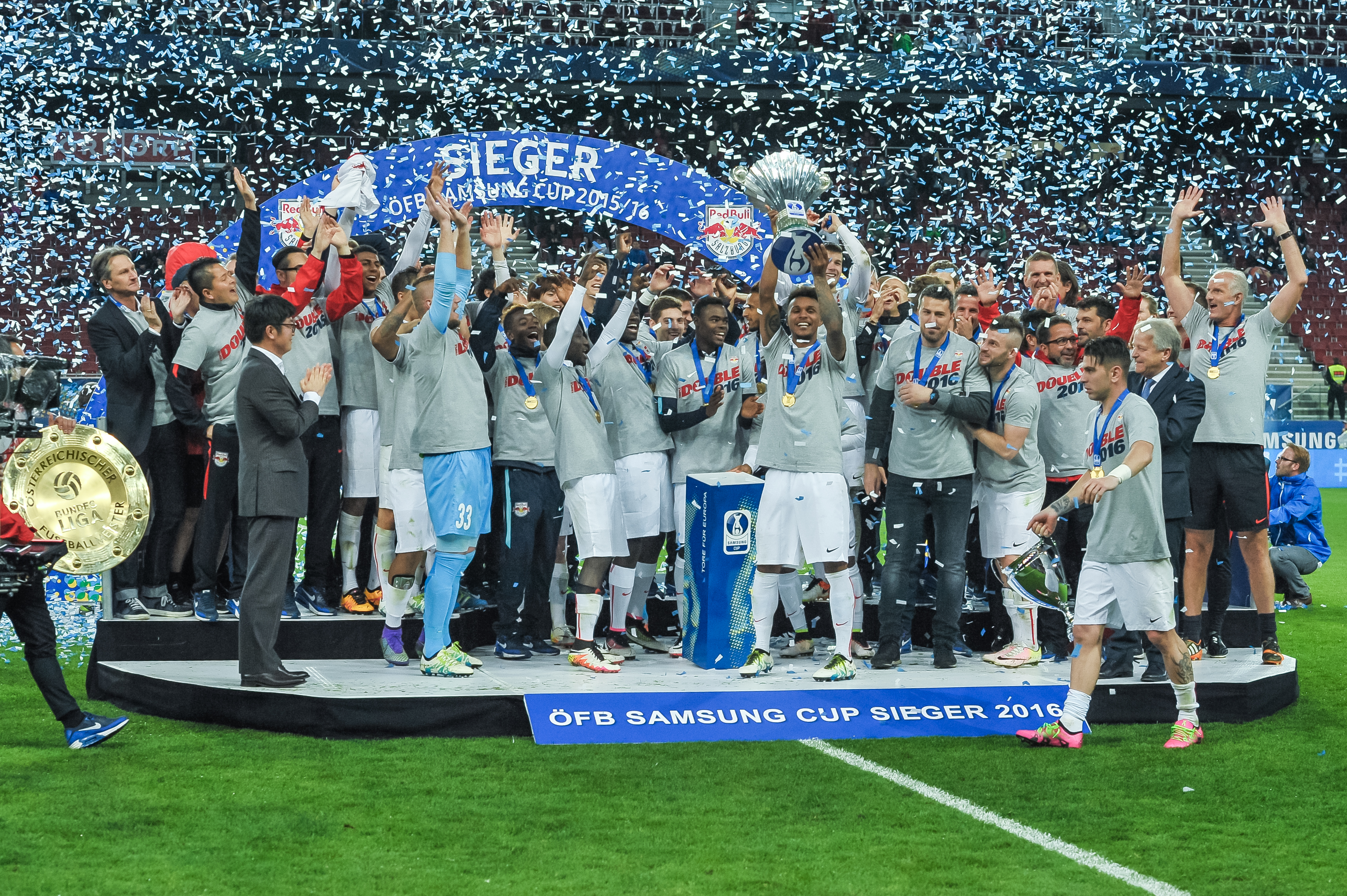 ÖFB Samsung Cup-Finale - FC Admira Wacker Mödling vs FC Red Bull Salzburg am 19. Mai 2016 in Klagenfurt. Bild zeigt den Pokalsieger Red Bull Salzburg.